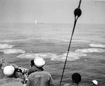 Off Point Judith, Rhode Island. The US Coast Guard-manned frigate USS Moberly lands a circular pattern of Hedgehog depth charges against German submarine U-853. Working with three navy vessels, the Coast Guard ship destroyed the submarine. The Moberly operated as a unit of the Atlantic Fleet. See File:U-853-sinking2.jpg for the depth charges exploding simultaneously underwater several seconds later.